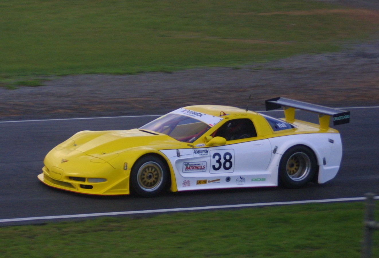 Des Wall's Chevrolet Corvette Sports Sedan racer